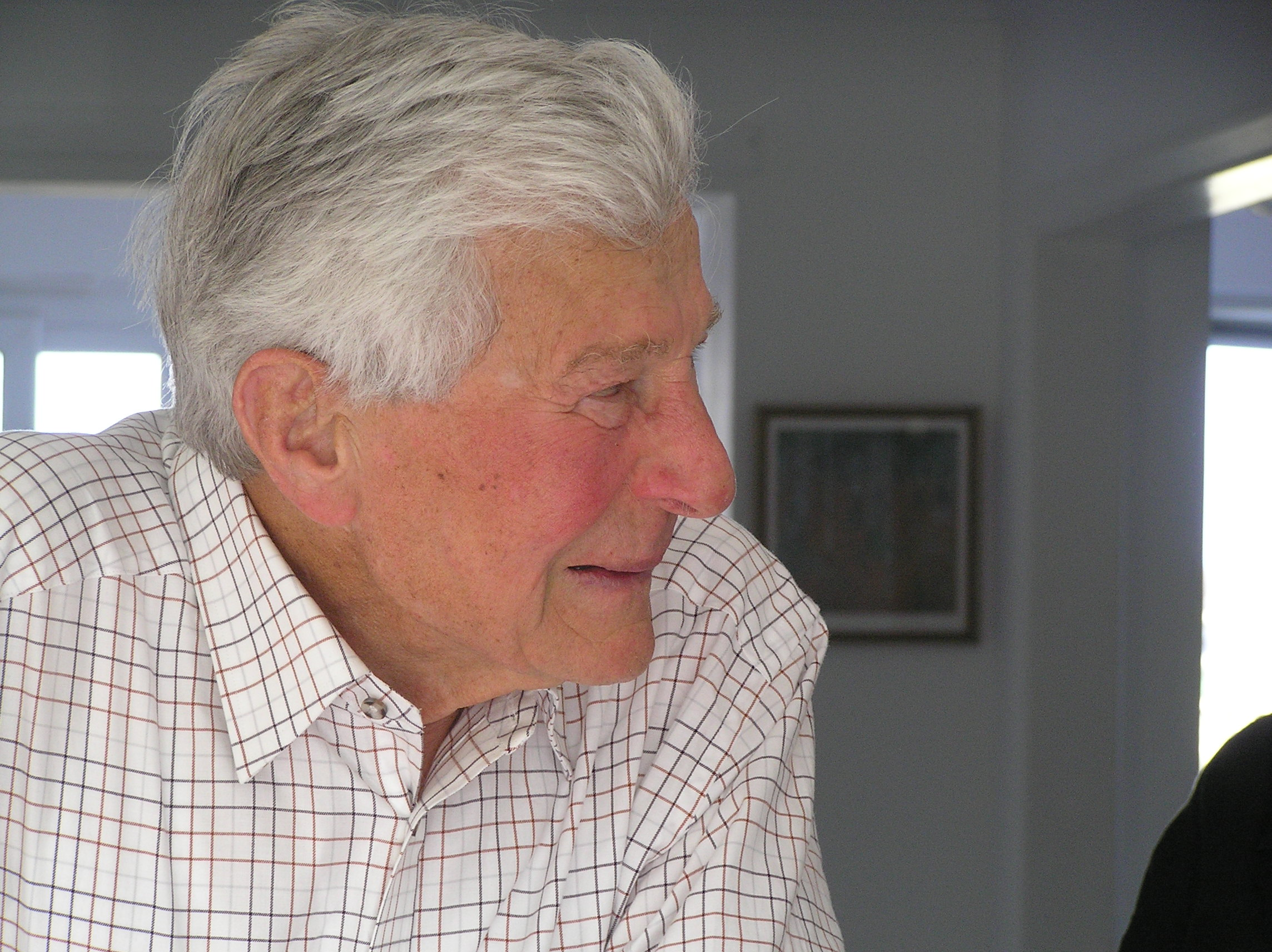 Peter Ebert family photo 2007